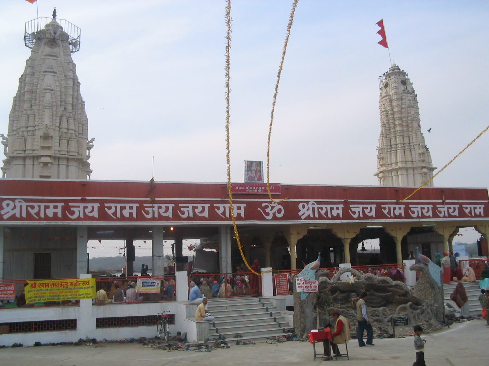 Godavari dham temple, kota, rajasthan; located at Chambal Garden Road